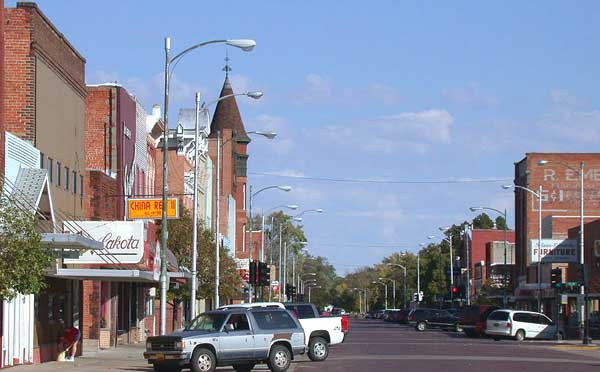 Downtown Lexington, Nebraska, looking north (taken Oct. 4, 2004) © 2004 Matthew Trump